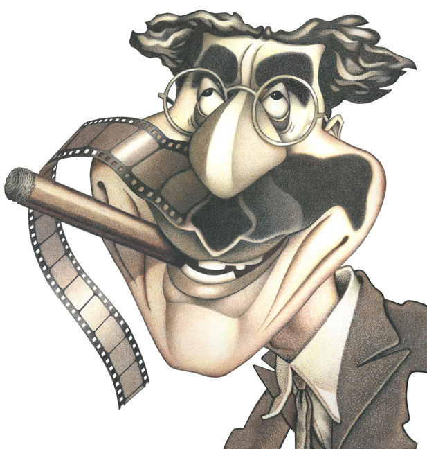 This caricature of comedian Groucho Marx was drawn and uploaded by User:Greg Williams. The drawing was done as a personal art project; Copyright is not controlled by any other individual or company. This image is licensed under the Creative Commons Attribution ShareAlike 2.5 License.